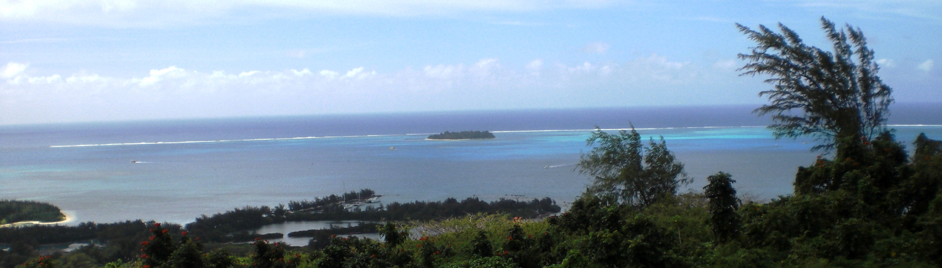 View of Tanapag Lagoon, Saipan, CNMI, Where the majority of the sites on the island's maritime heritage trail rest.